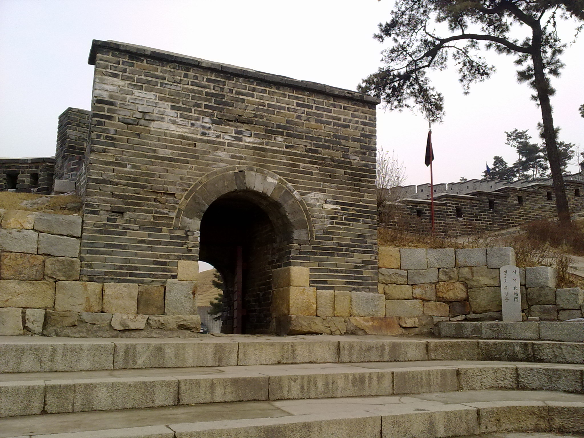 Bukammun, Hwaseong Fortress